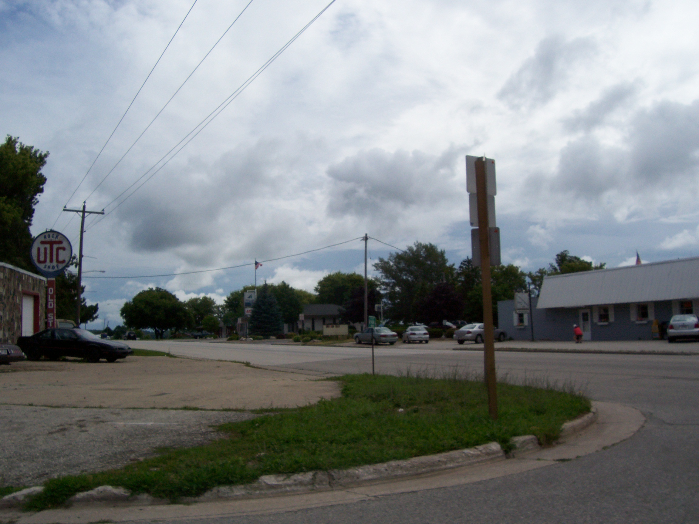 Looking east at Brussels, Wisconsin at Wisconsin Highway 57.